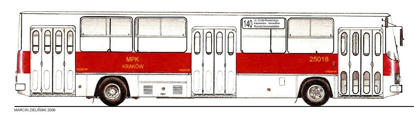 Ikarus 260.04 bus (#25018) from Kraków, Poland. Built 1984, MPK Kraków operator.